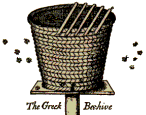 The Greek hive